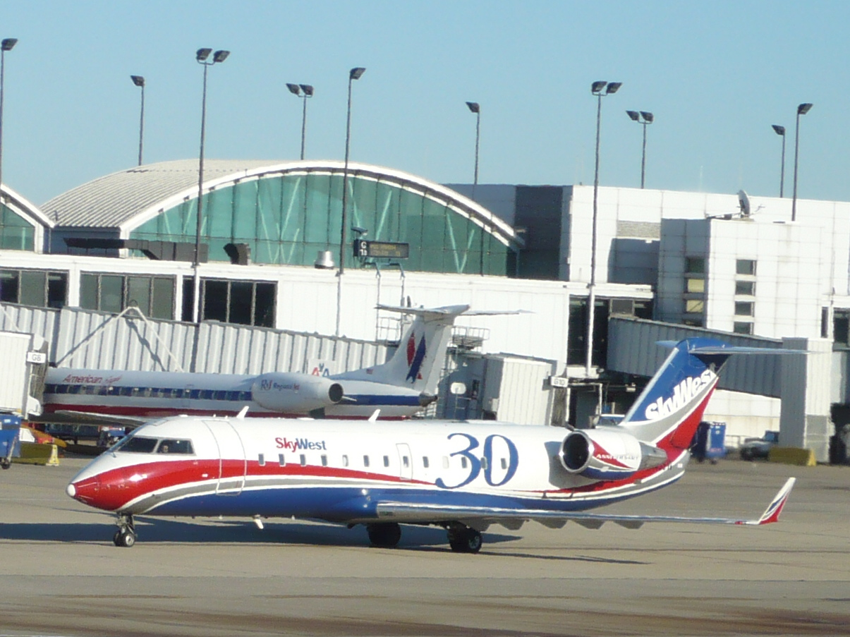 Skywest CRJ 200 in anniversary coloring